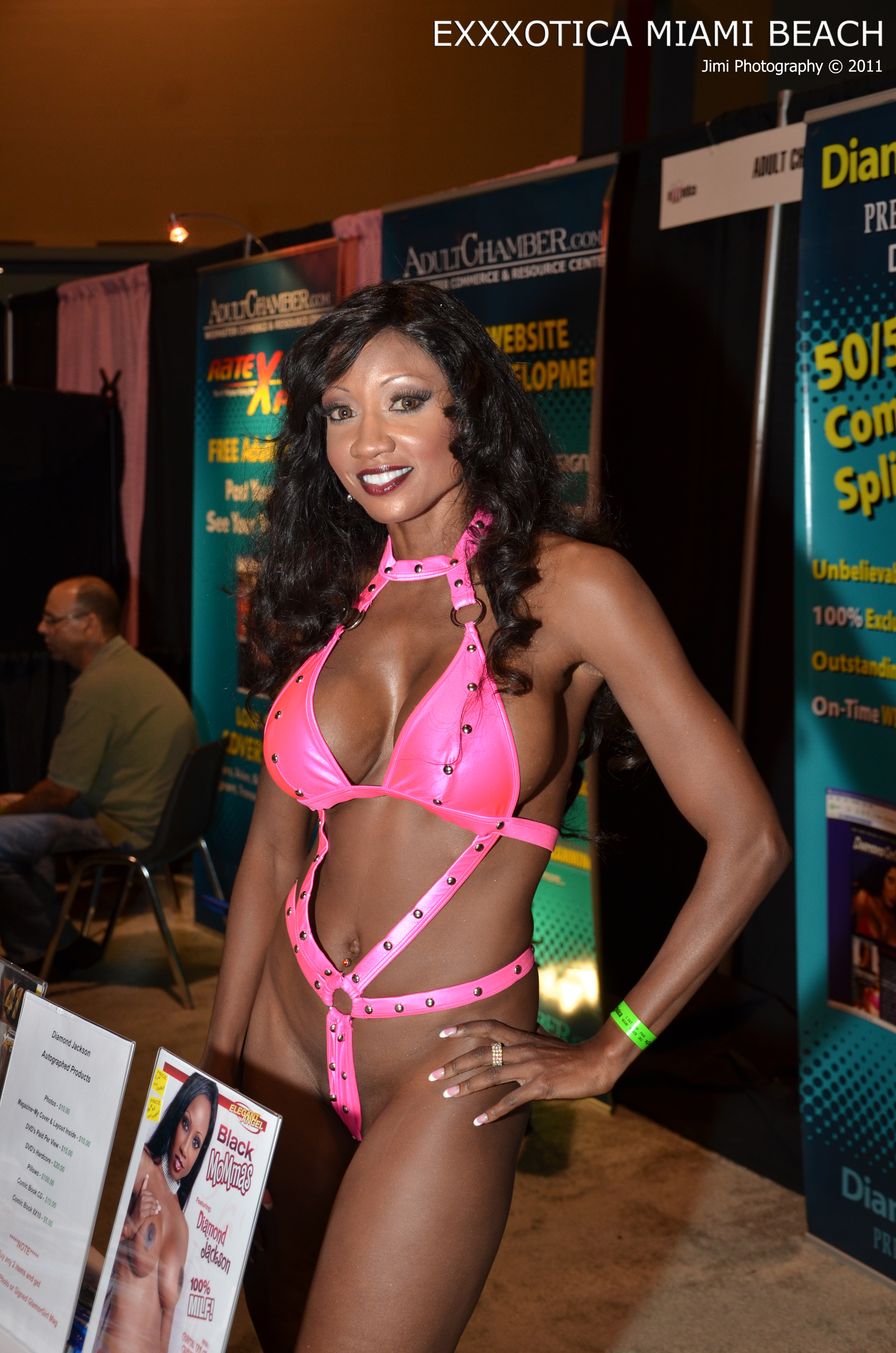 Diamond Jackson at Exxxotica Miami Beach on May 21, 2011